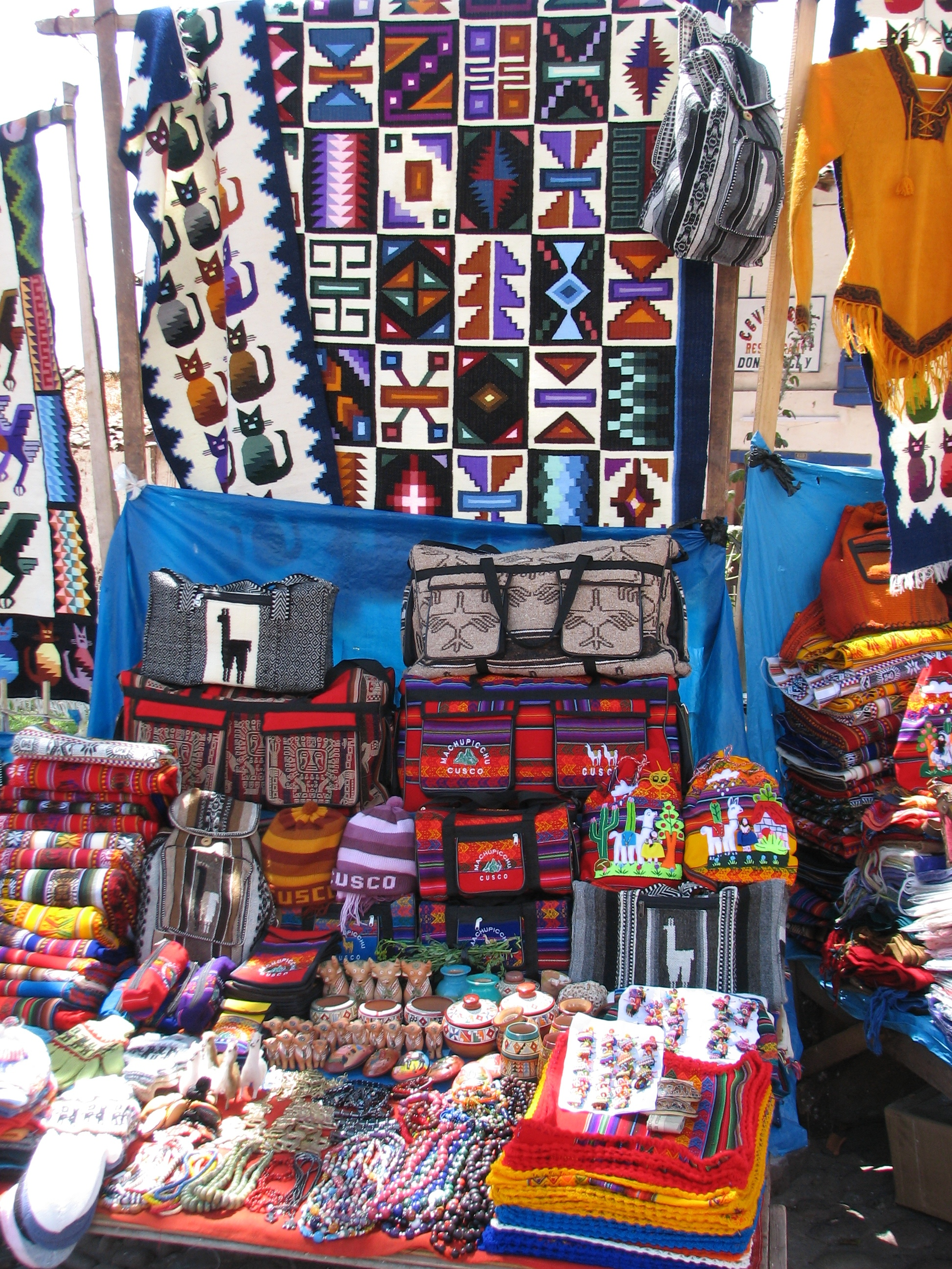 Wool at the market in Andahuaylilas/Cusco/Cusco, Peru